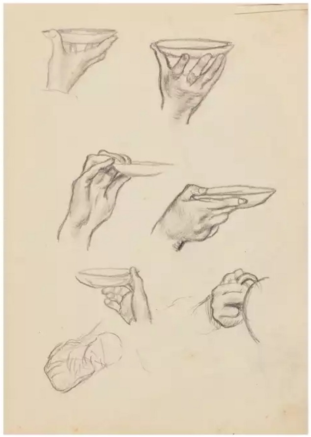 Kustodiev kept this sketchbook in the 1910s and many of the pages bear dates from 1912 and 1916. It provides a fascinating insight into the artist's creative process during some of the most interesting years of his career and features details from some of his best-known paintings. Besides a portrait of Peter the Great and a series of nudes, there are studies of a lady's hand holding a teacup, recognisable from his depictions of Kupchikhi, and of fairground booths recognisable from his scenes of Shrovetide.